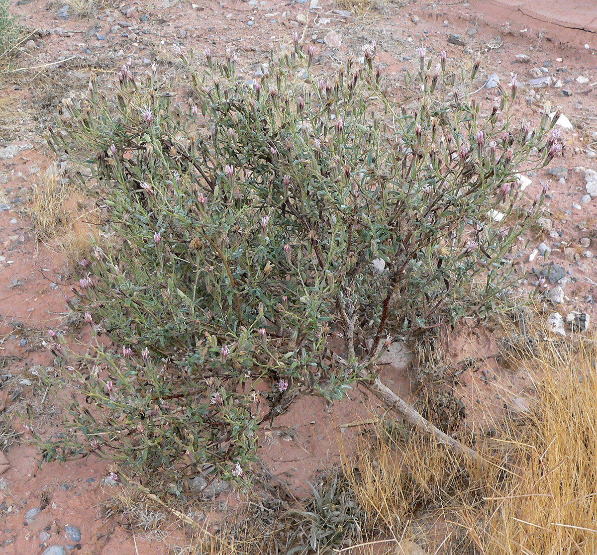 Palafoxia arida var. arida in lower Gypsum Wash near where Northshore Drive crosses it, Lake Mead National Recreation Area, southern Nevada